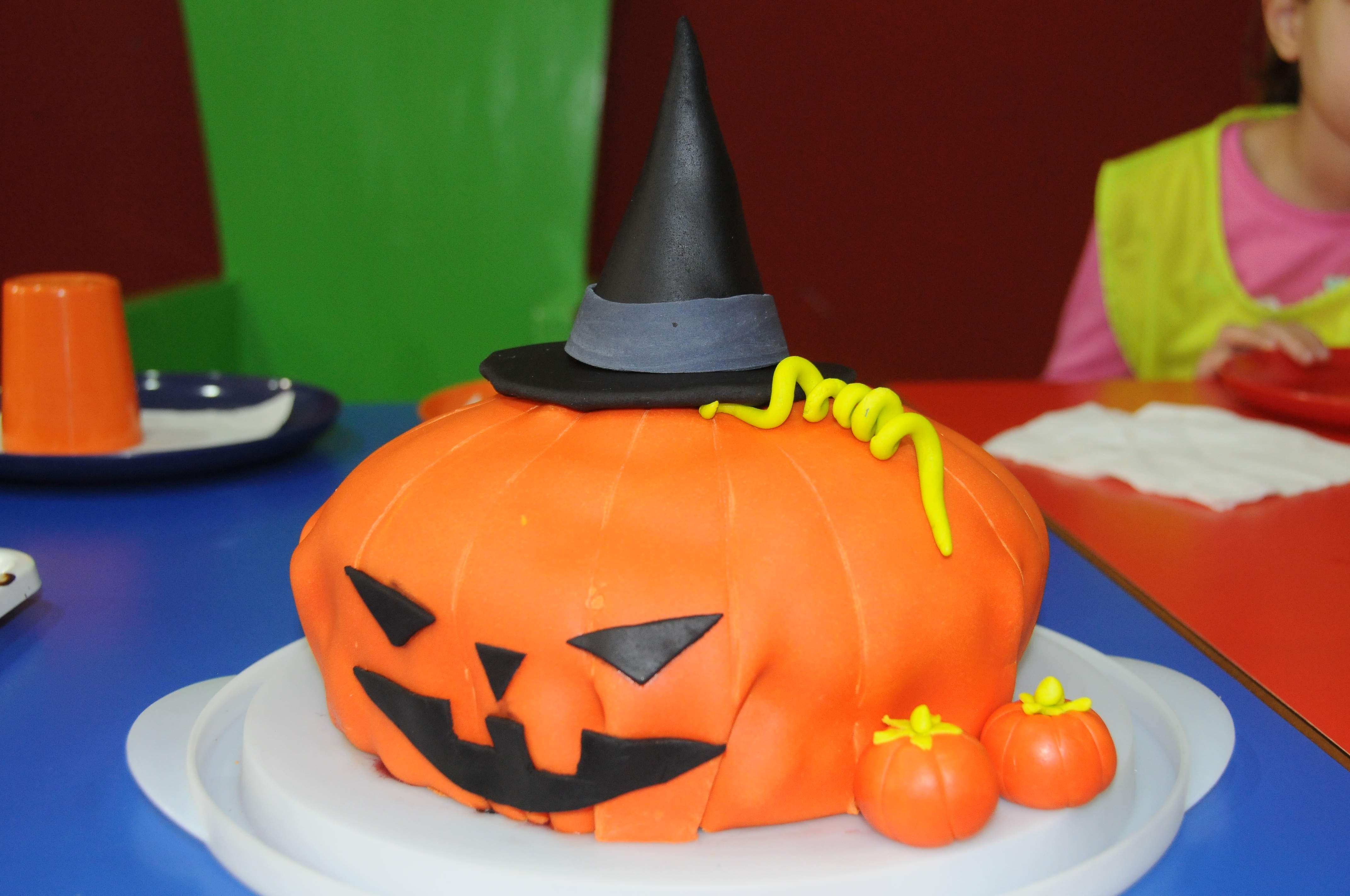 Halloween cake in Braga, Portugal